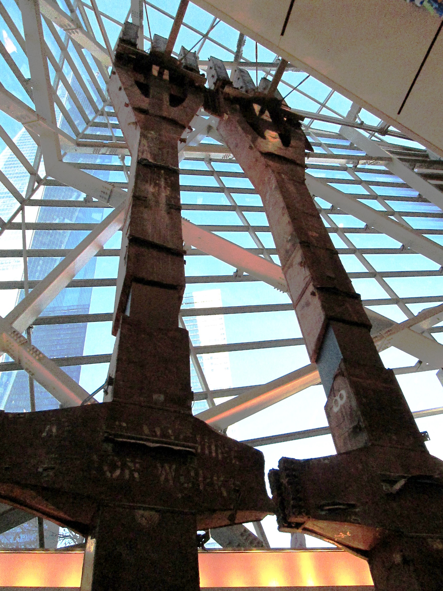 These "tridents" are a portion of the steel from the facade of one of the towers of the World Trade Center in the National September 11 Museum at 180 Greenwich Street in the Financial District of Manhattan, New York City. Behind the seteel, through the window of the museum's entrance, can be seen the new One World Trade Center (originally known as the Freedom Tower).